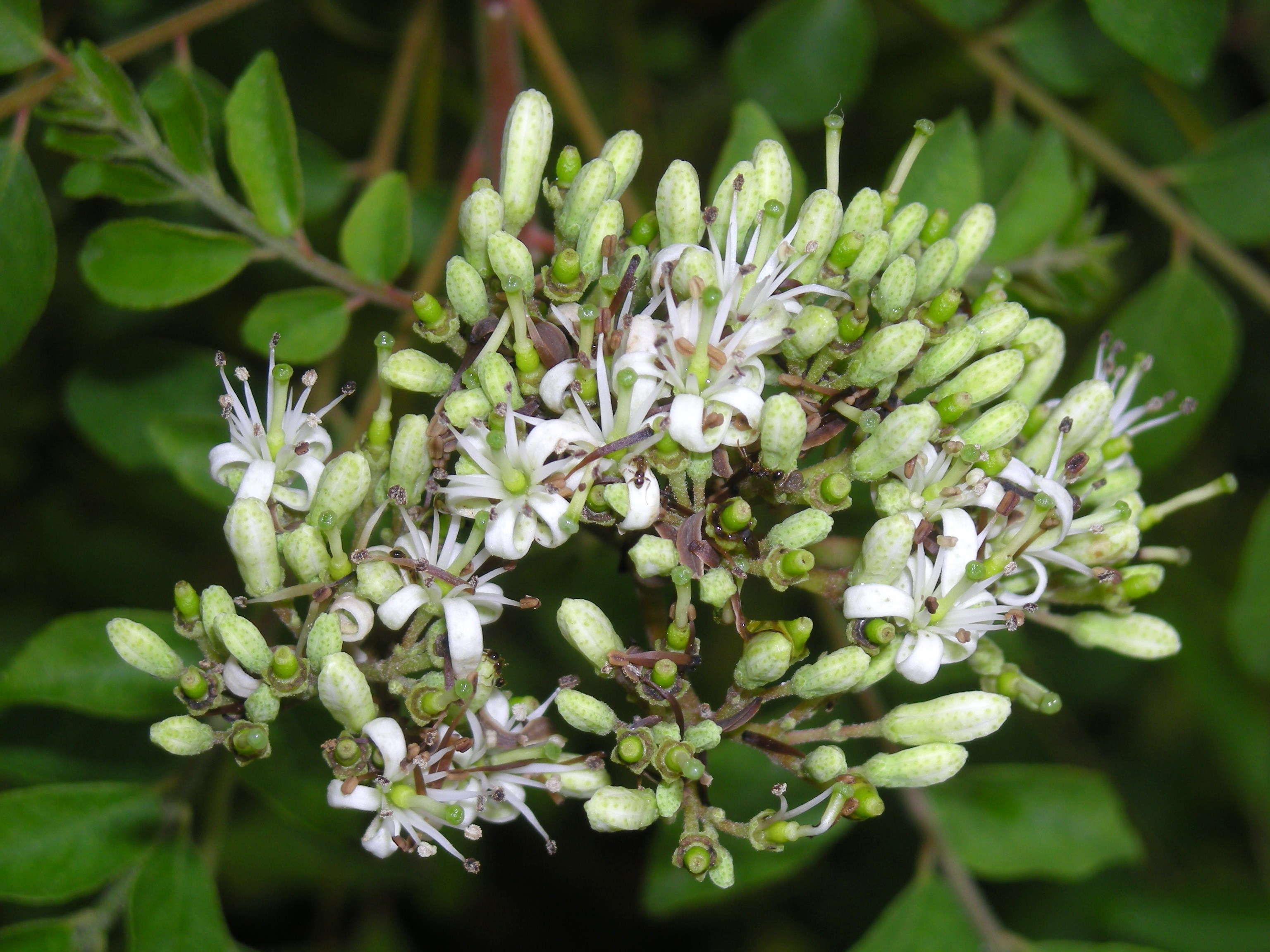 Curry Tree Bergera koenigii flower. Picture taken in Tanzania.